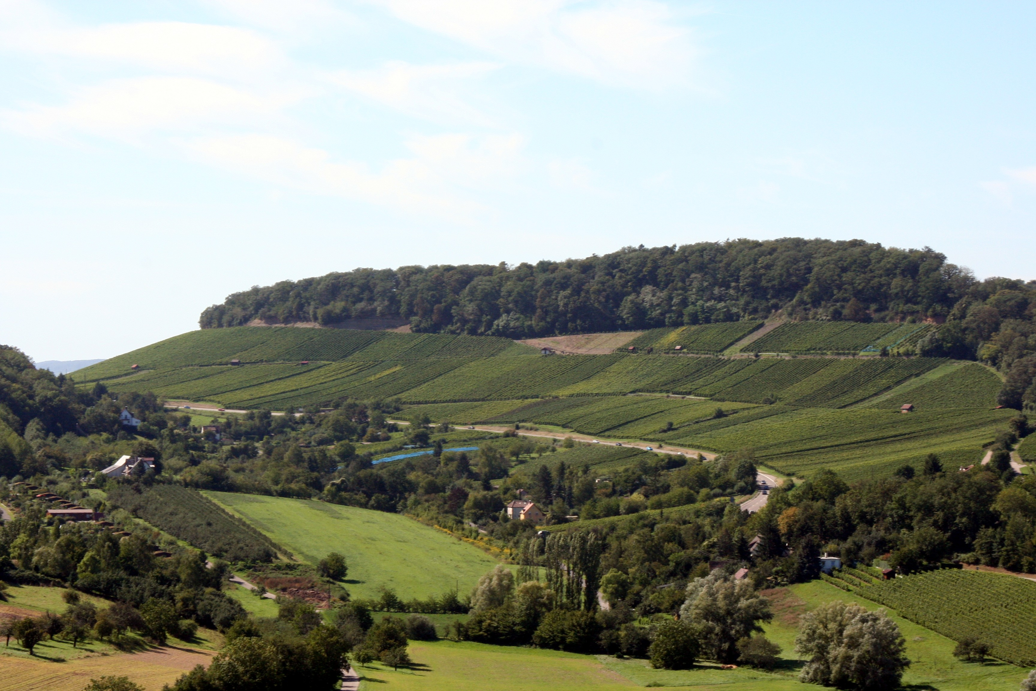 The Wartberg hill in Heilbronn as seen from the Schemelsberg hill in Weinsberg, in the foreground the West of the territory of Weinsberg